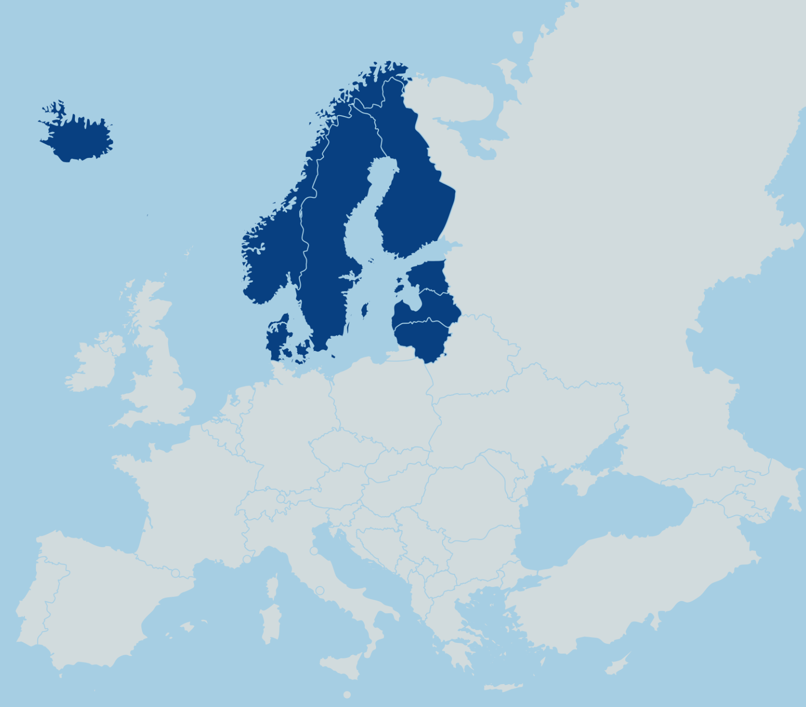 Nordic-Baltic Eight (NB8)